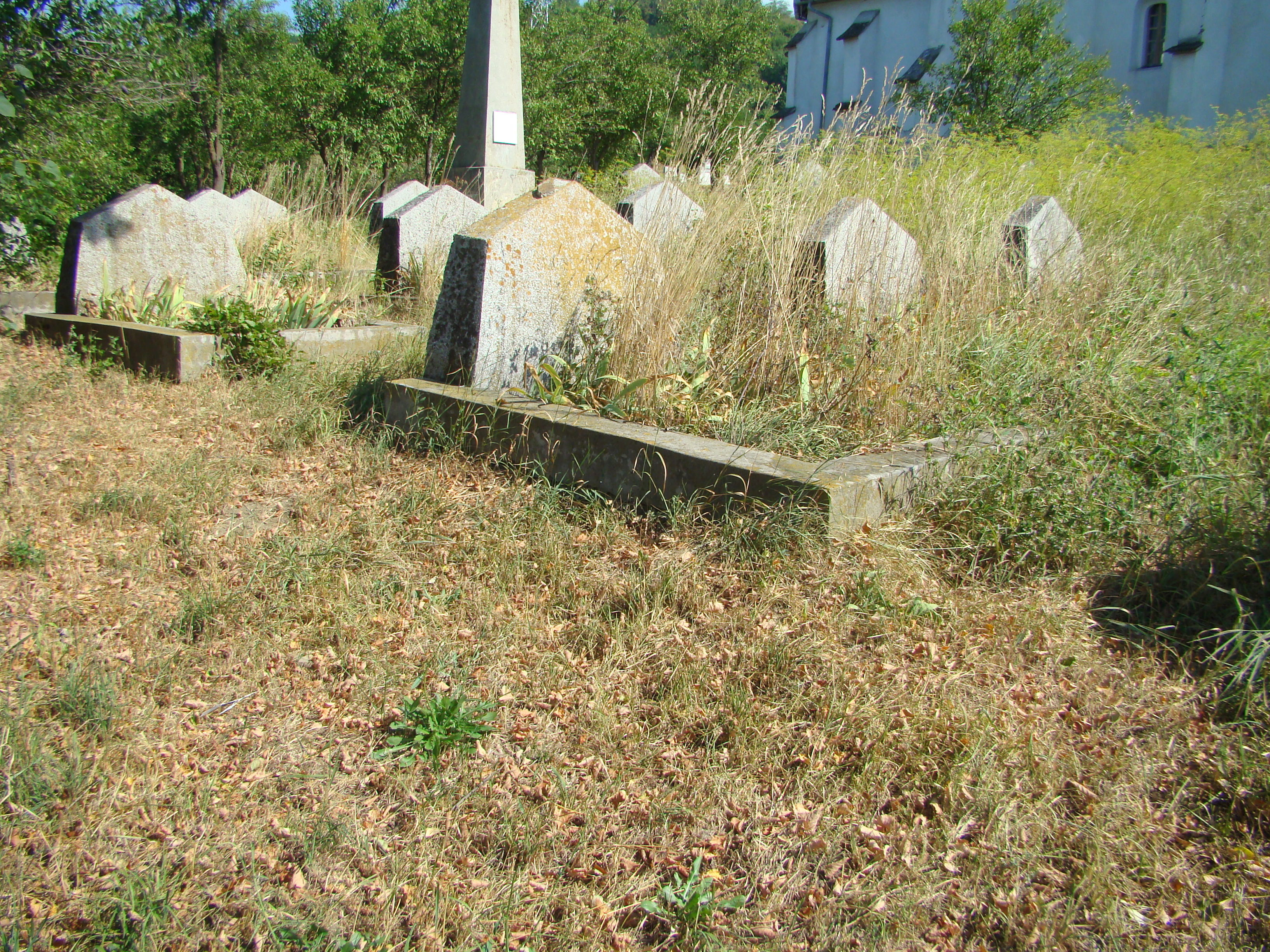 Unitarian church in Gălățeni, Mureş county, Romania